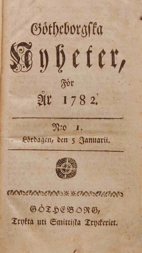 The frontpage of the newspaper Gotheborgska Nyheter from Januari 5, 1782.